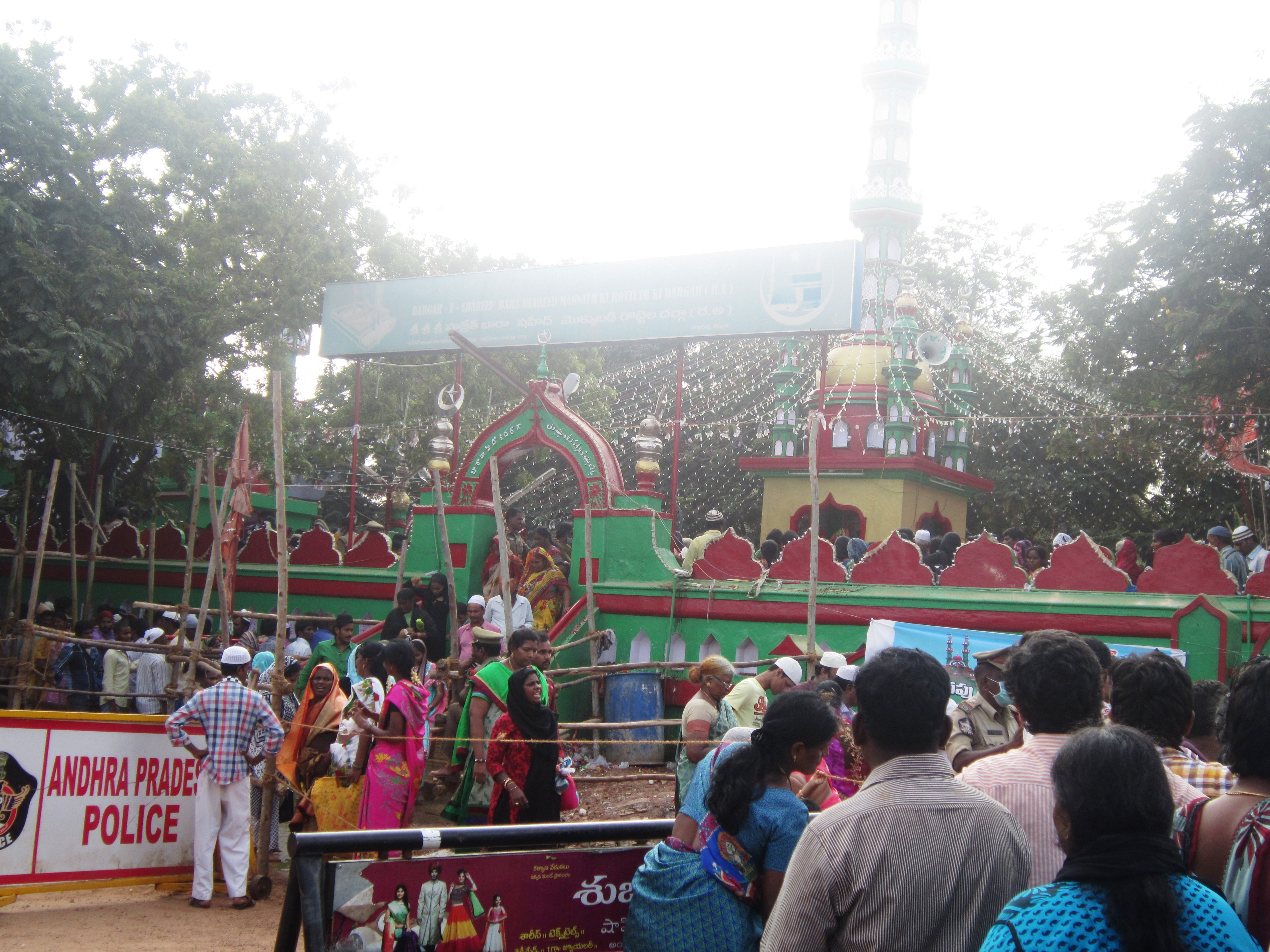 Barashadid darga in Nellore,in AndhraPradesh